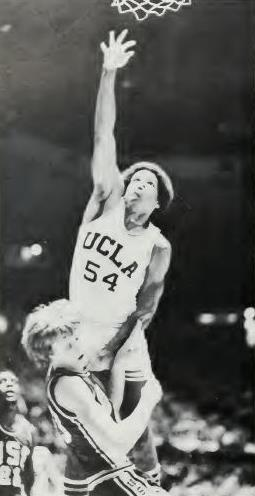 College basketball player Marques Johnson playing for the UCLA Bruins.